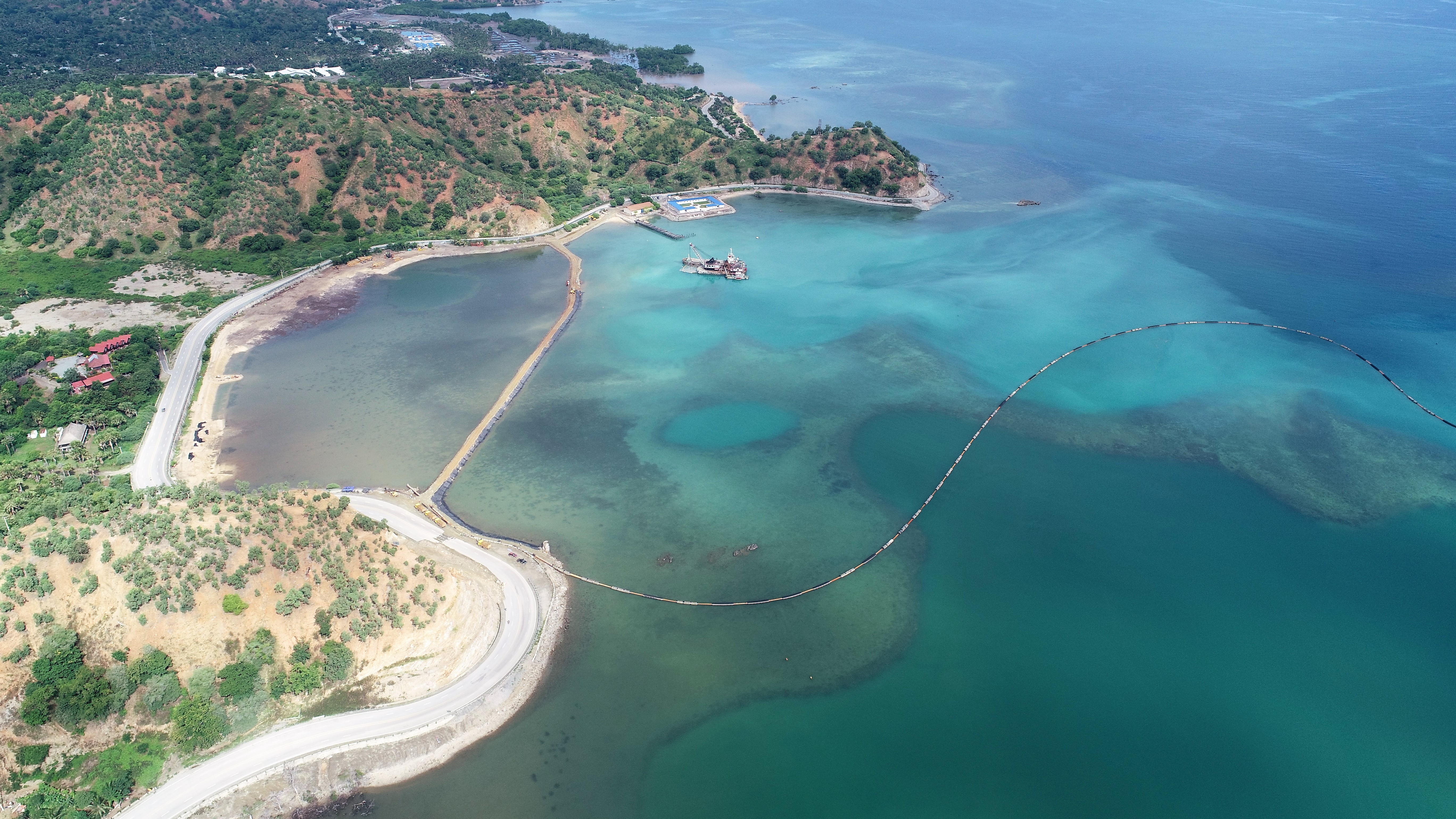 Part of the Shipping Line on the future